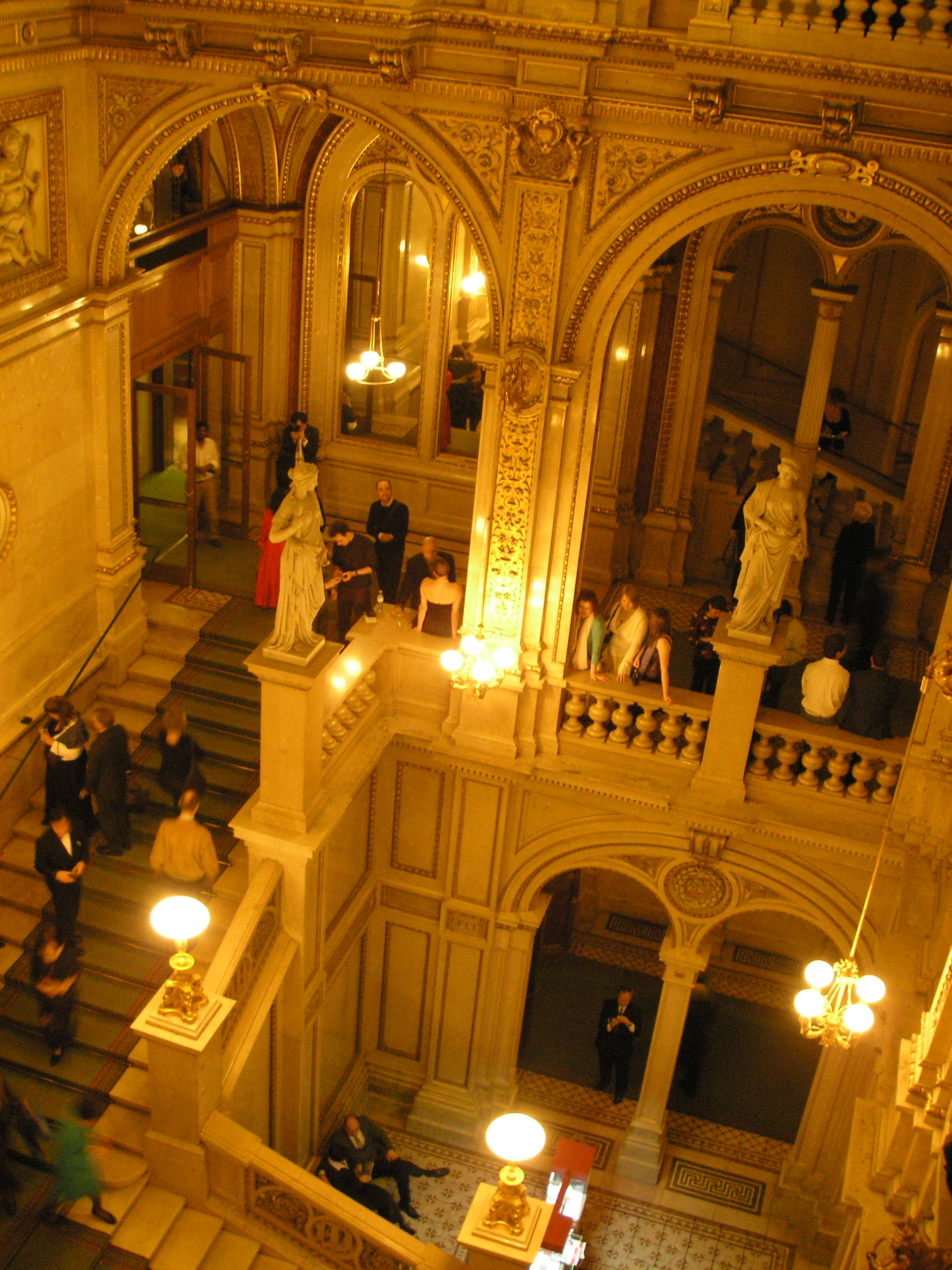 View from the grand staircase in the Vienna State Opera.